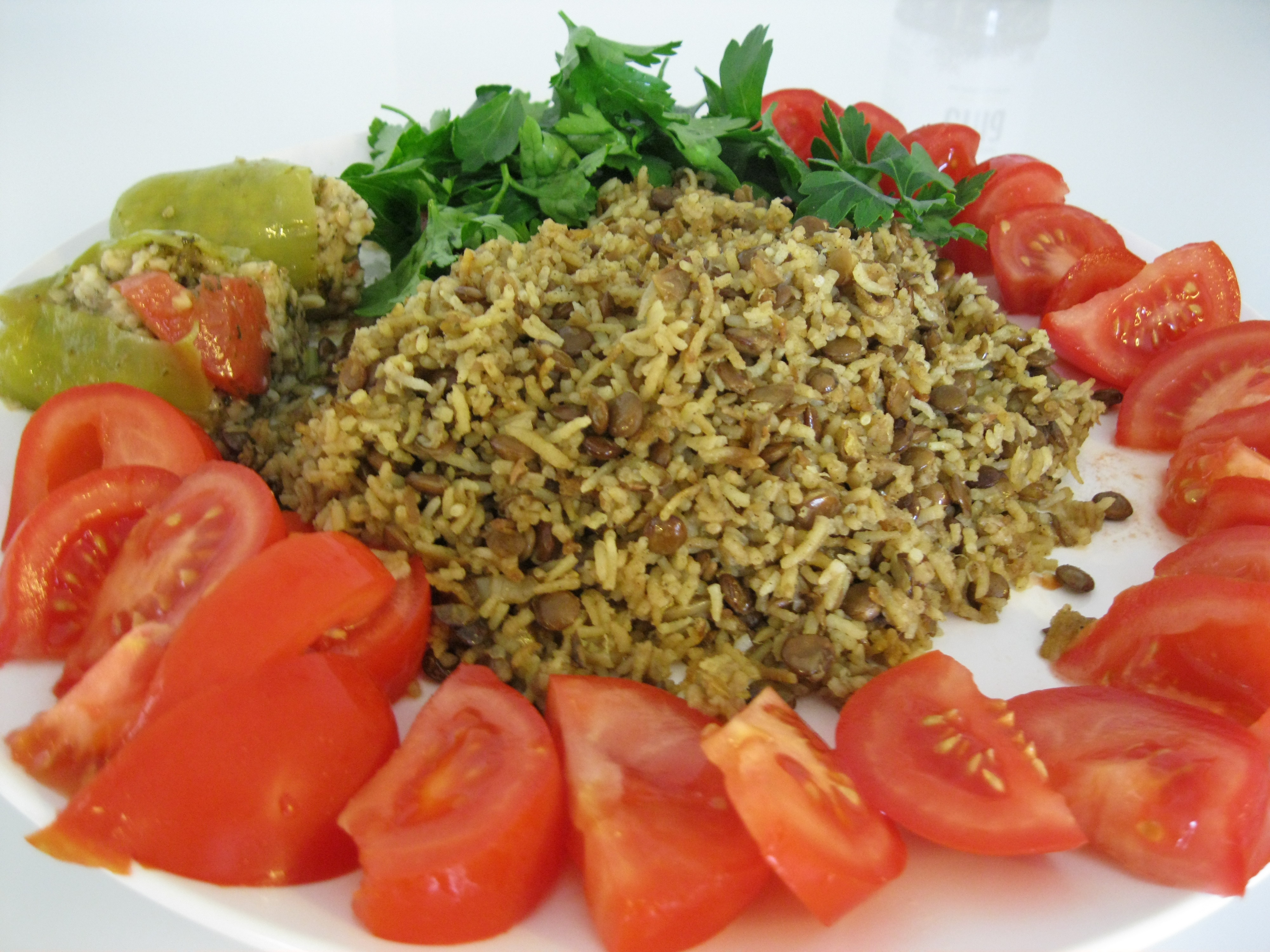 Vegan dish with rice and lentil